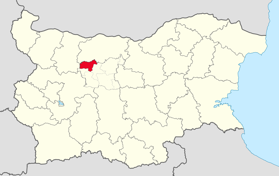 Location map of Lukovit Municipality within Lovech Province, Bulgaria. Equirectangular projection, N/S stretching 130 %. Geographic limits of the map: N: 44.4° N S: 41.1° N W: 22.1° E E: 28.9° E